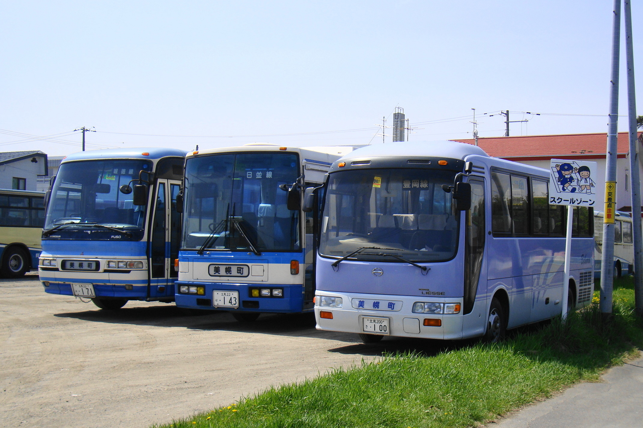 Bihoro town line